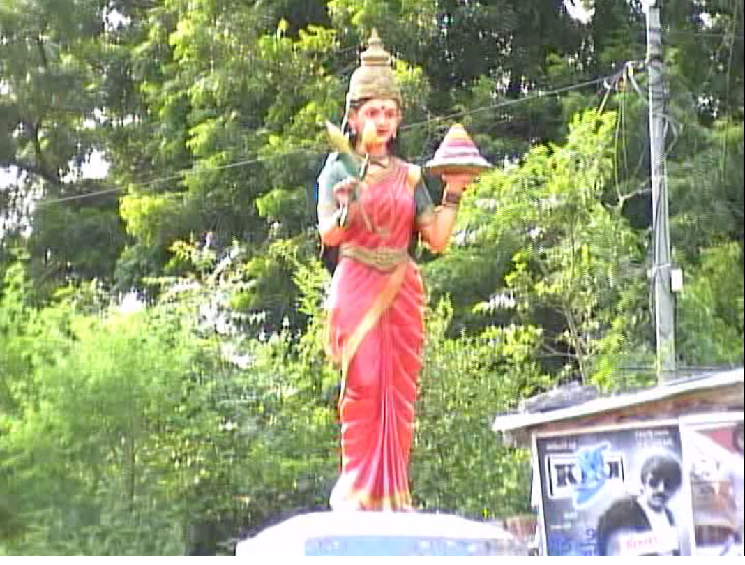 Telangana Talli Statue in Pedda Korpole at Ramulavari Gadda.